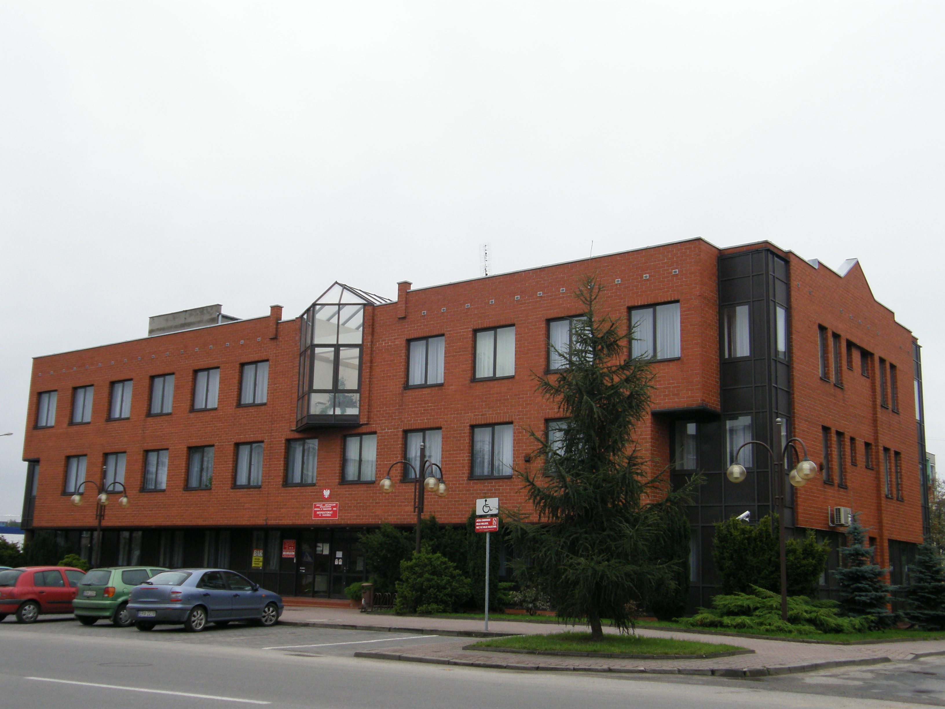 ZUS in Radomsko